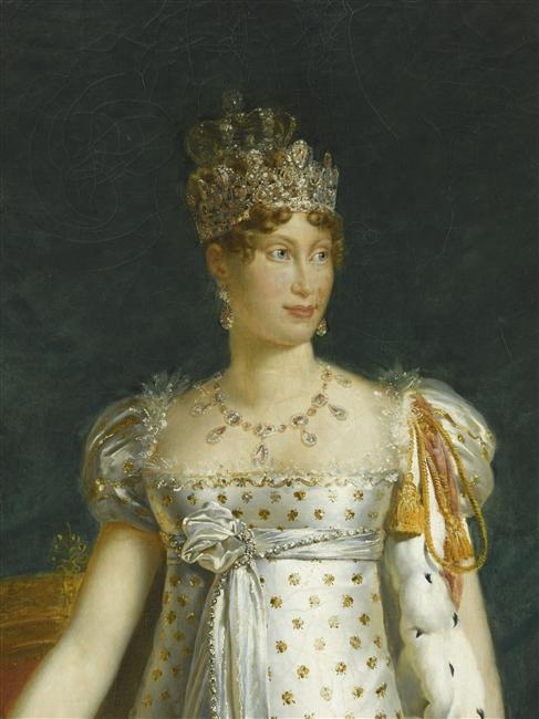 Portrait of Marie Louise of Austria, Empress of French